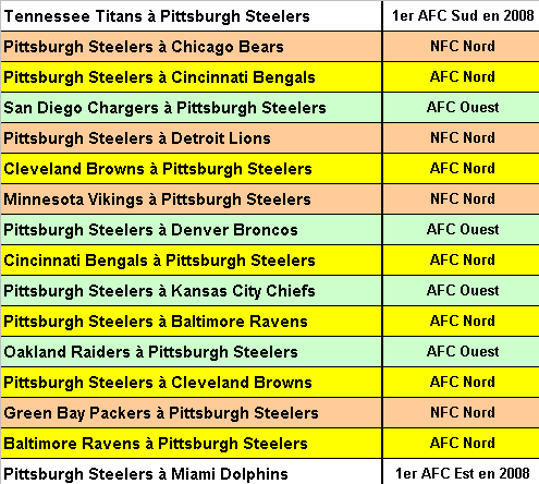 List of games by Pittsburgh Steelers during NFL regular season 2009, with justification